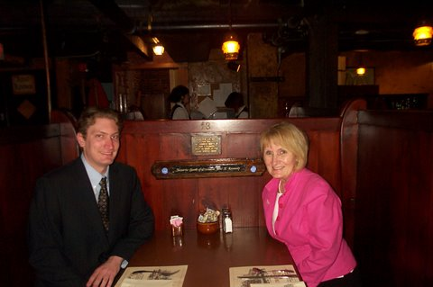 This is my 2008 photo of the Union Oyster featuring the John F. Kennedy booth.